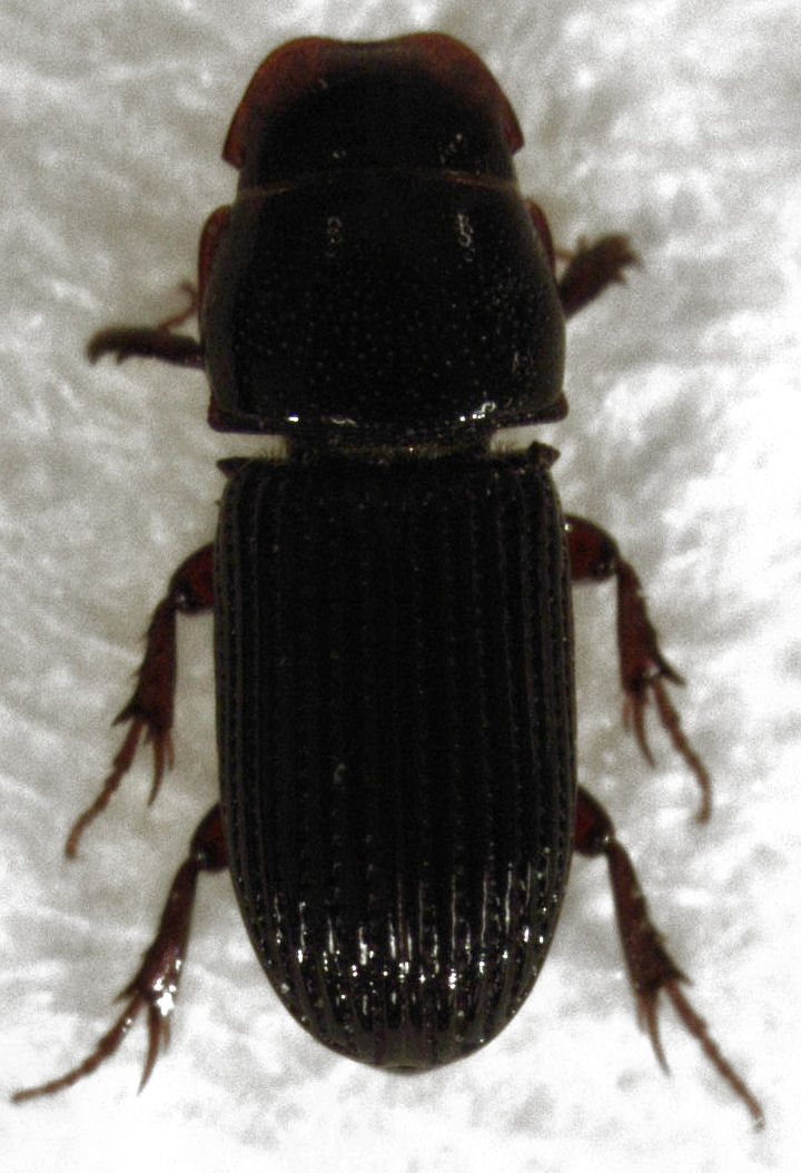 Saprosites mendax